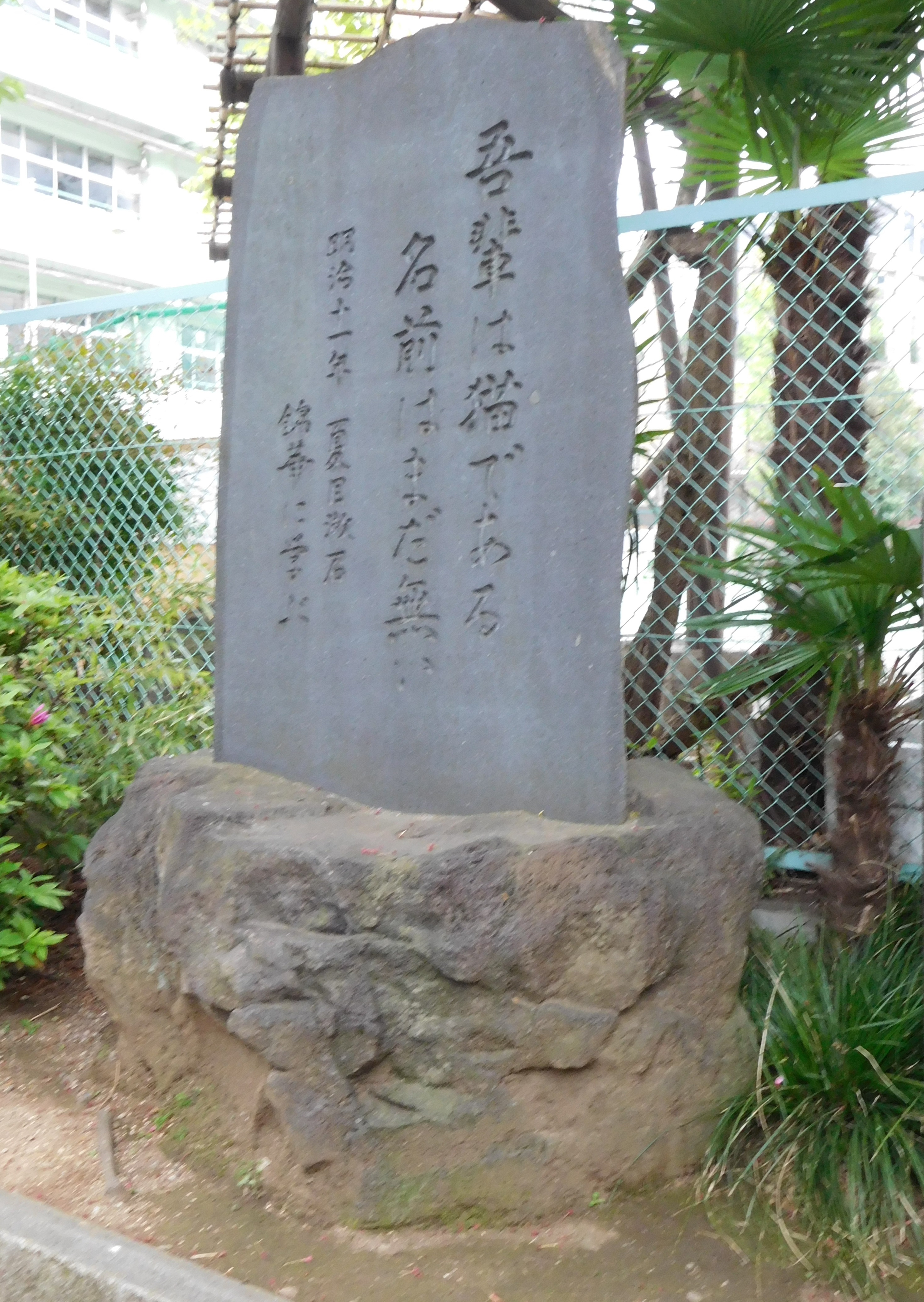 This is a monument for the novel written by Natsume Soseki "I Am a Cat" in front of Chiyoda city Ochanomizu elementary school, Tokyo, Japan.